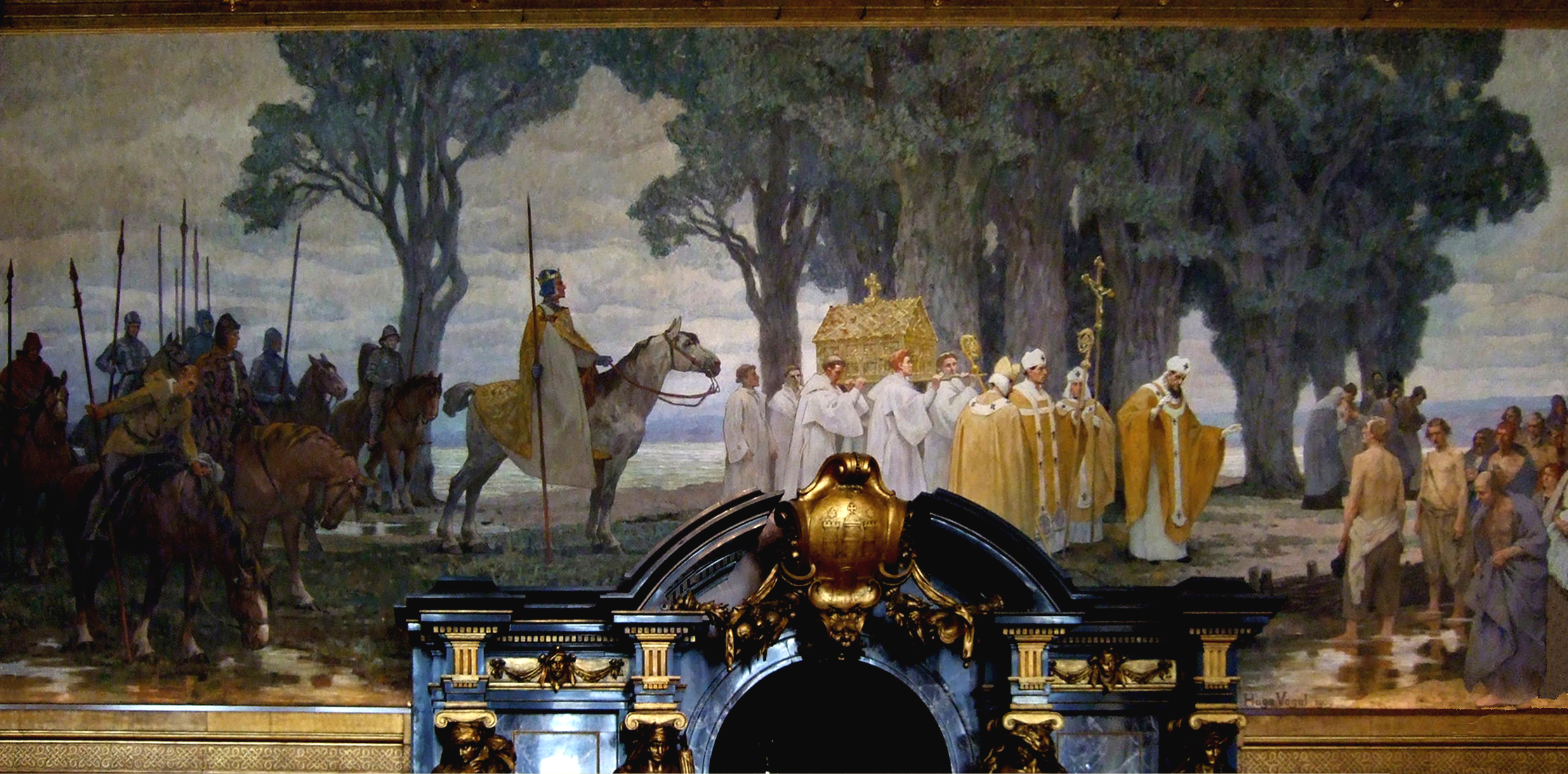 Bishop Ansgar converts the pagan Hamburgers. Wall painting by Hugo Vogel in the Festival Hall of Hamburg's City Hall.